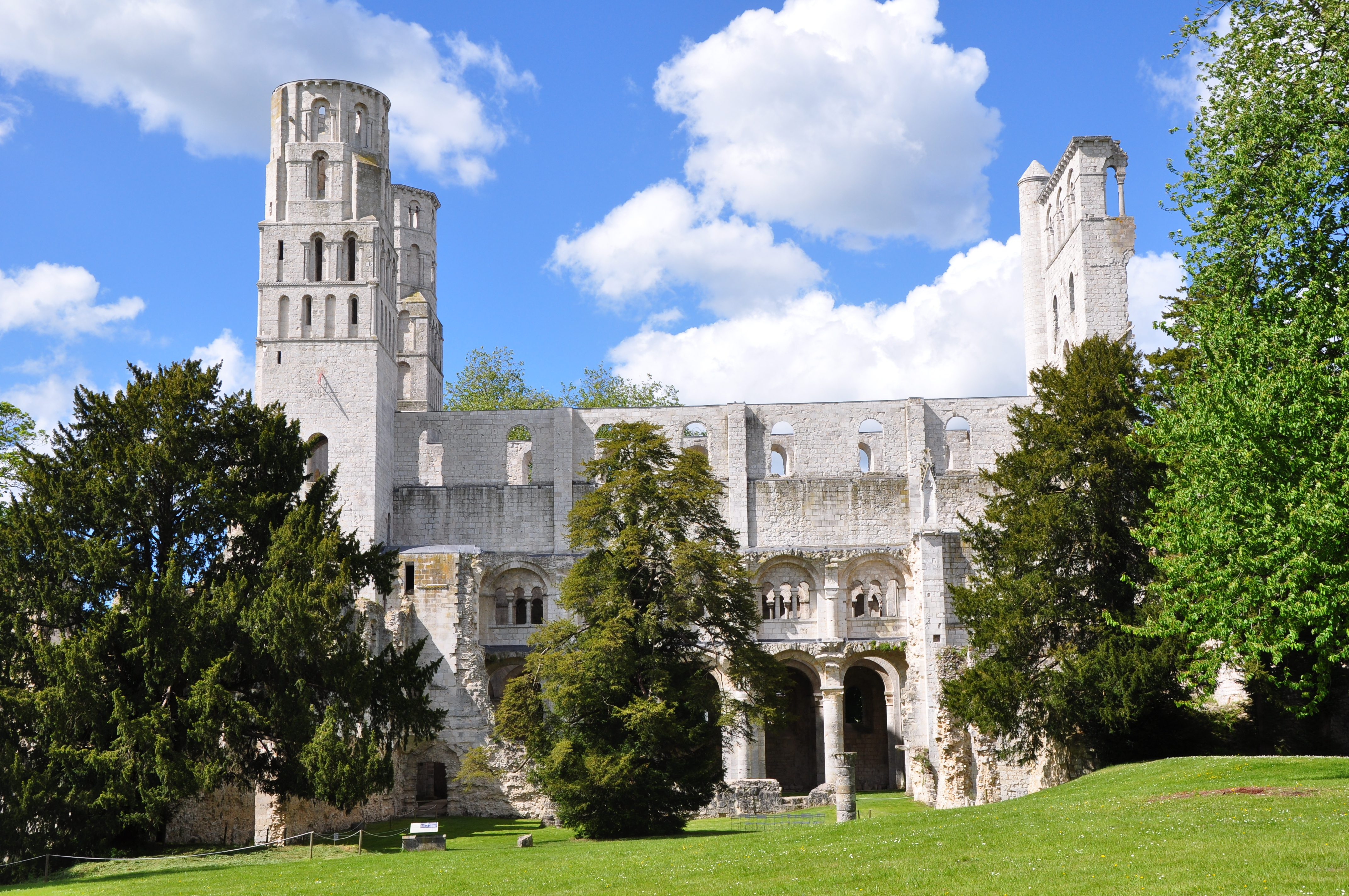 Overview of Abbaye de Jumièges (France, Normandy)